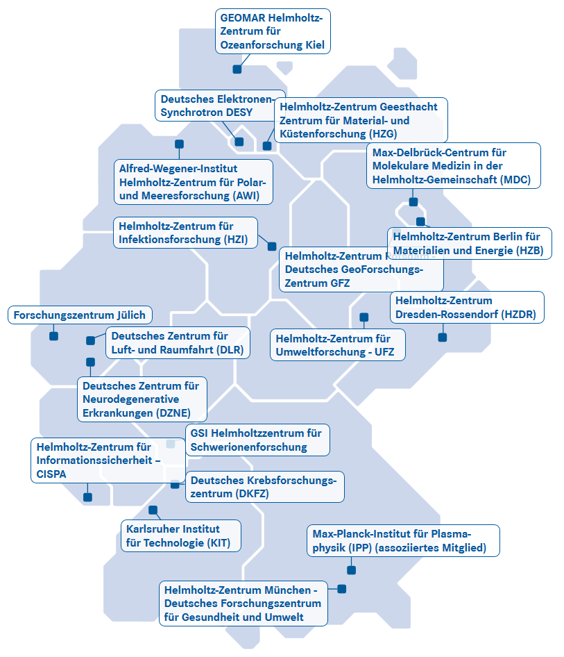 A map showing the location of research centers belonging to the Helmholtz Association of German Research Centers. Abbreviated names are used, so this map is language-neutral.